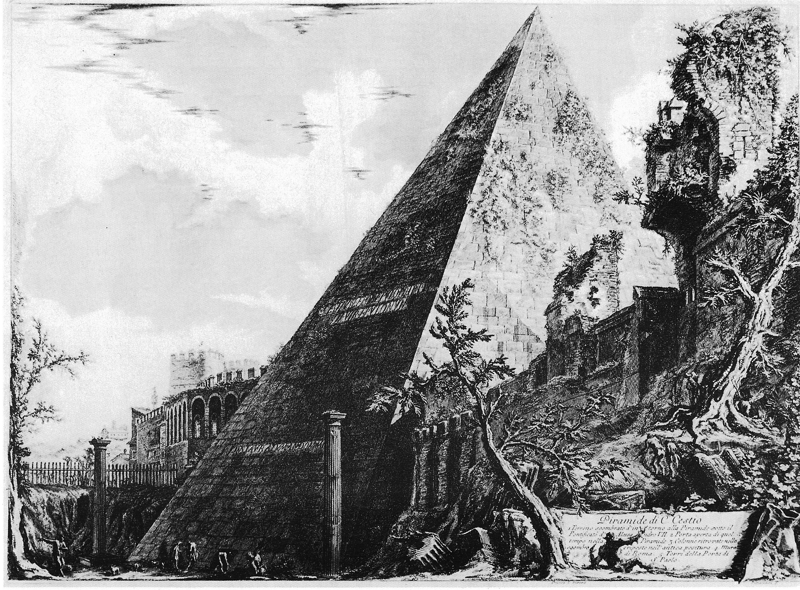 Etching of the Pyramid of Cestius in Rome.